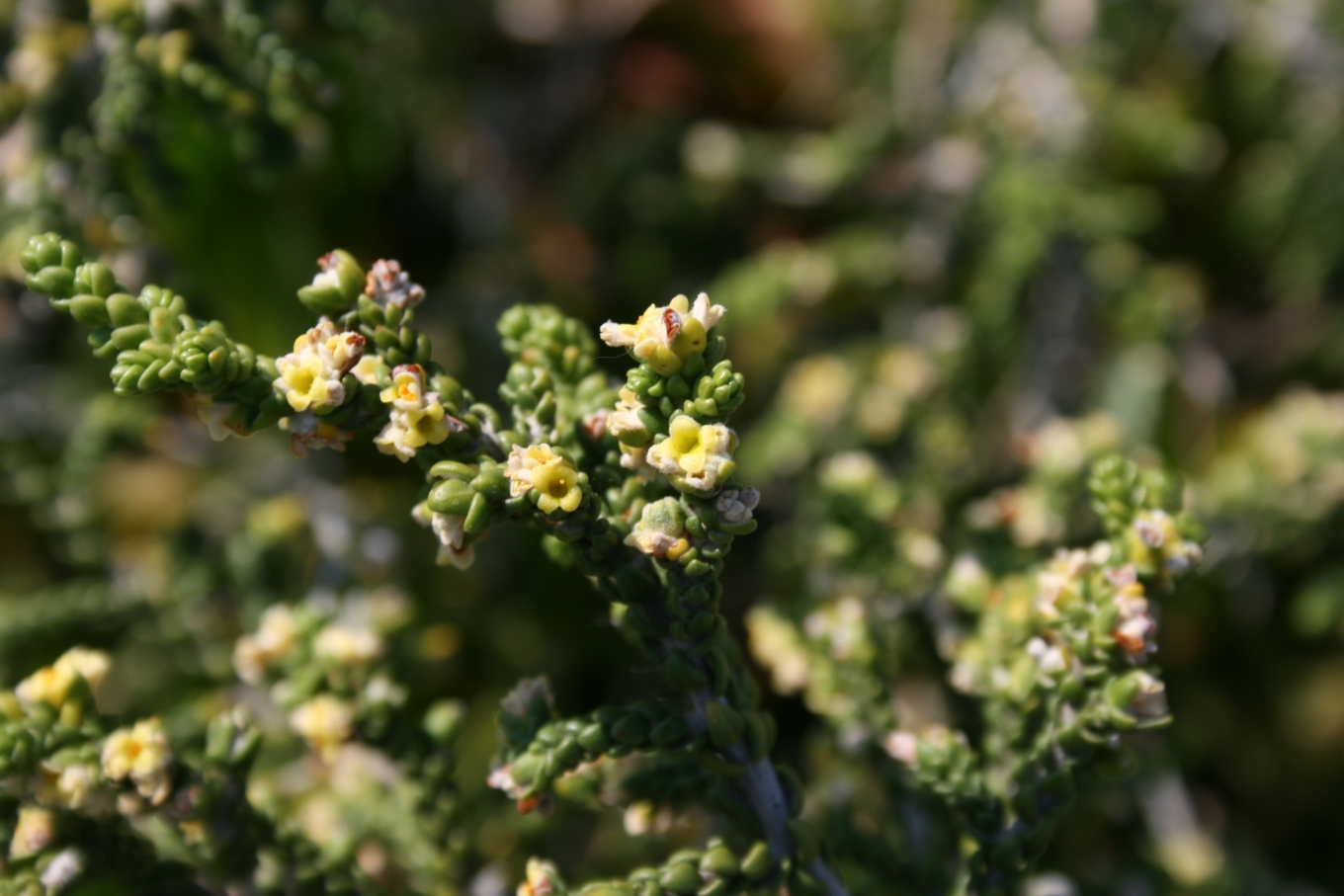 Thymelaea hirsuta: Flowers